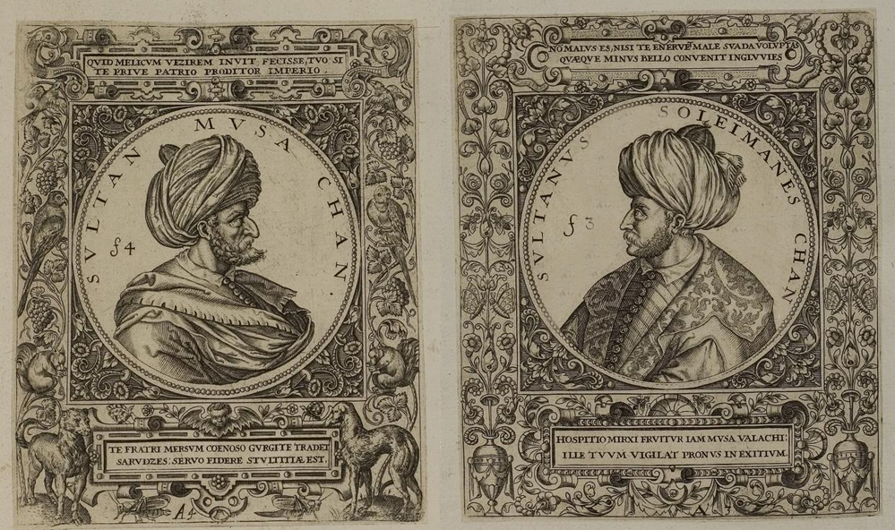 Two Ottoman princes Musa Çelebi (left) and Süleyman Çelebi (right) Edited for illustration of Finnish article Kosmidionin taistelu (en: Battle of Kosmidion) These brothers and princes fought against each other in battle of Kosmidion 15 June 1410. Original information in